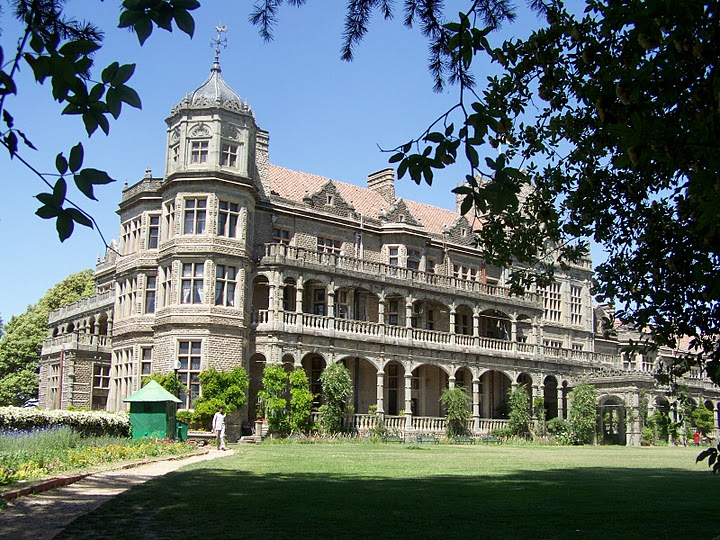 The indian Institue of Advance Studies is situated at Shimla. It was formerly the Residence of the president of India in Himachal Pradesh.